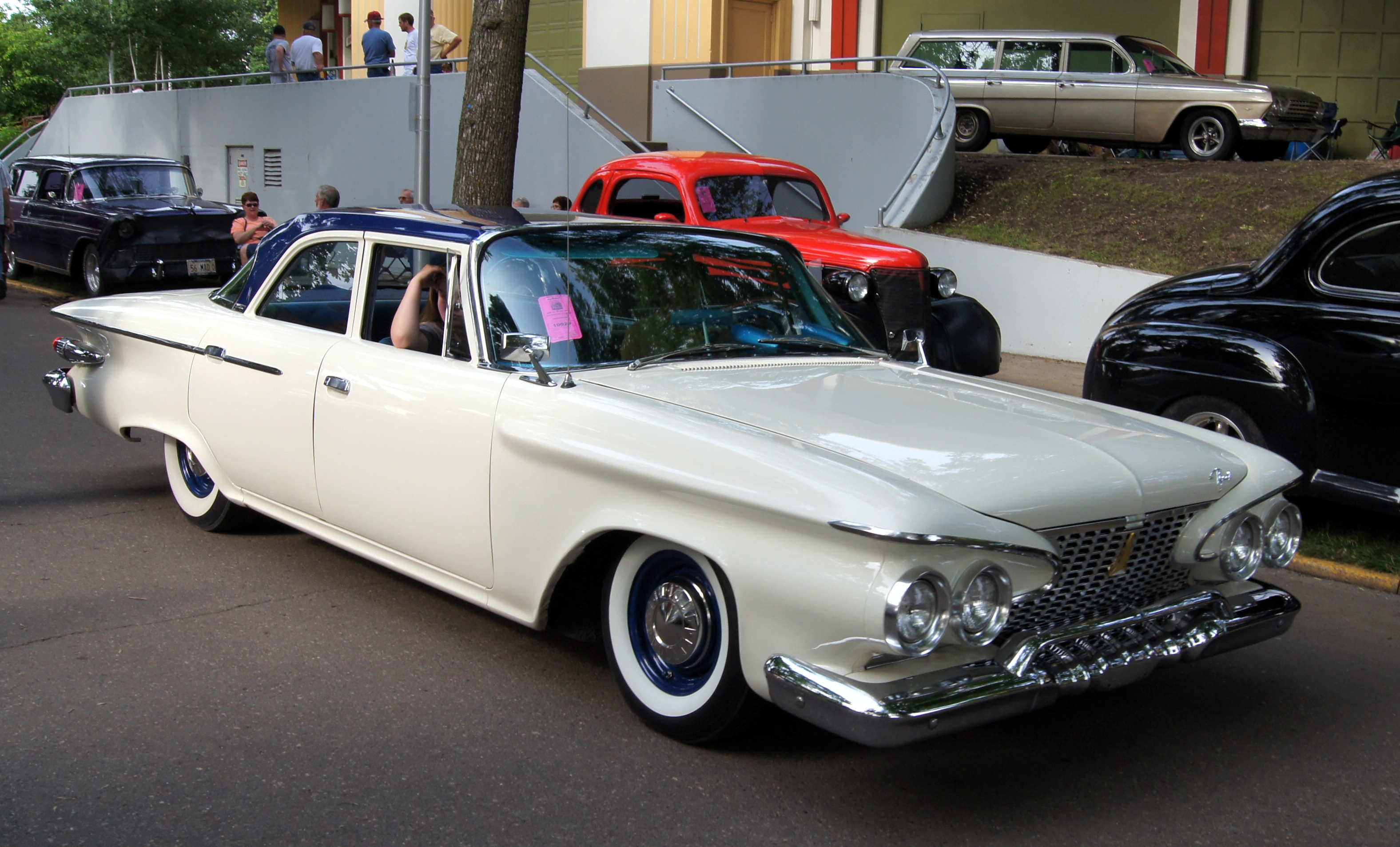 MSRA “BACK TO THE 50′s” 40th ANNIVERSARY June 21-23, 2013 State Fairgrounds St. Paul Minnesota More Car Pictures